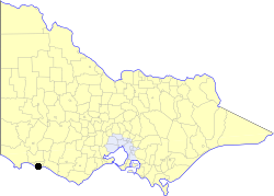 Location of the former Borough of Port Fairy within Victoria.